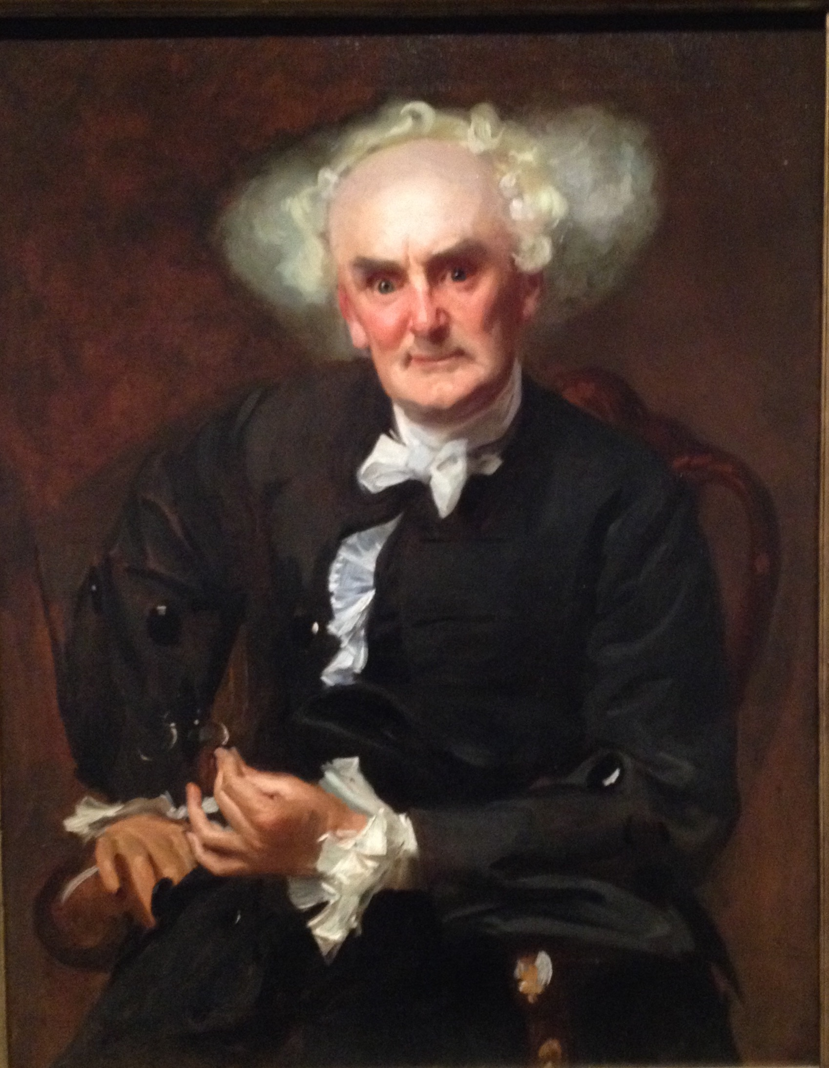 oil painted portrait of Joseph Jefferson, and actor portraying Doctor Panglos